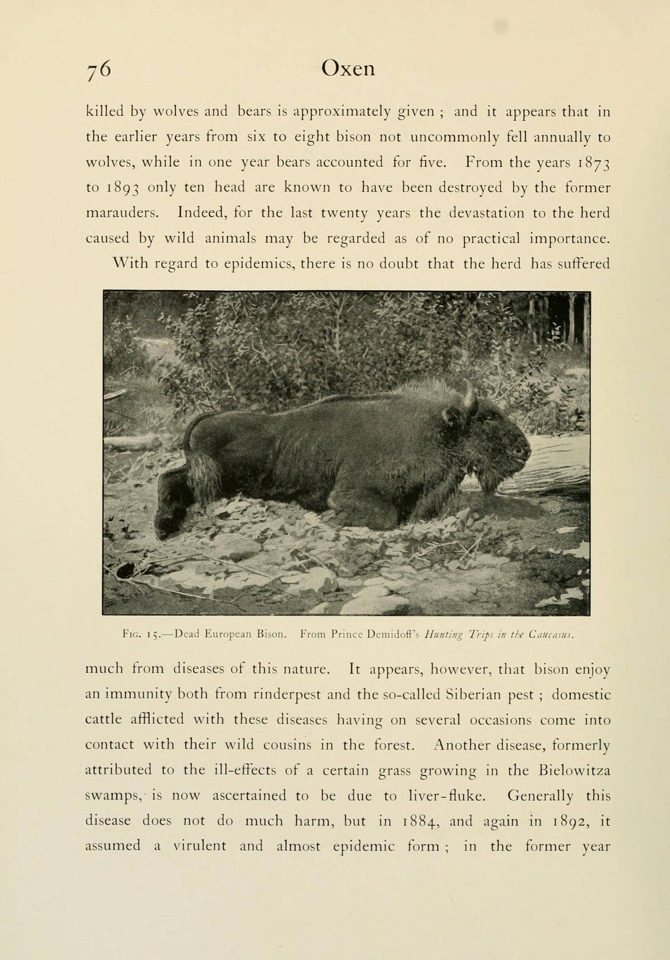 76 Oxen ... Fig. 15.—Dead European Bison. From Prince Demidoff's "Hunting Trips in the Caucasus." ...